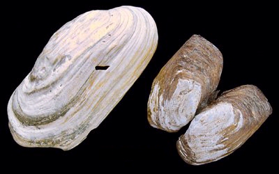 Hiatella arctica; marine bivalved shell occurring in the North Sea.